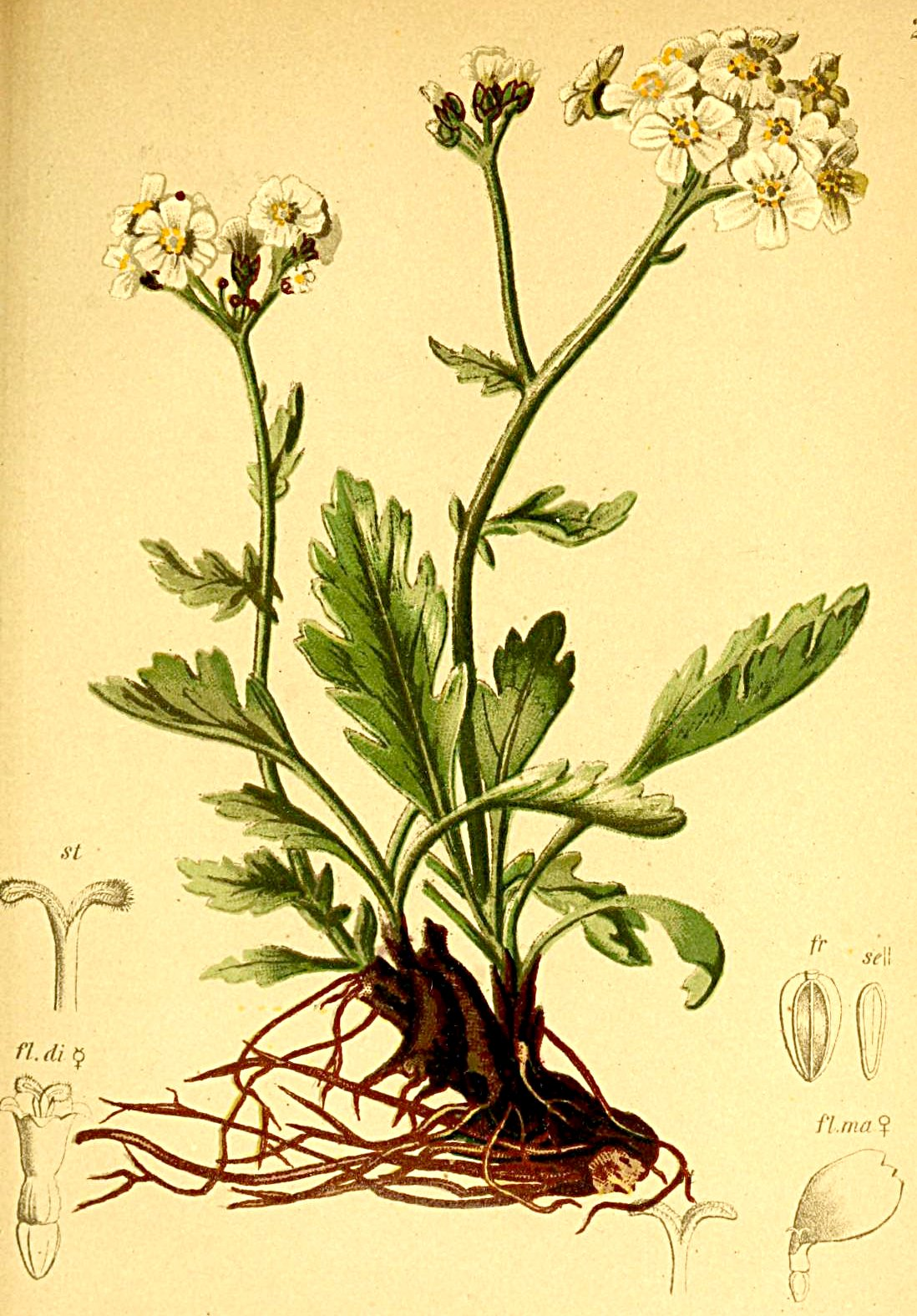 Achillea clavenae